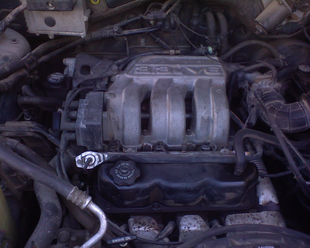 3.3L Chrysler OHV engine mounted in a 1991-1994 Plymouth Voyager